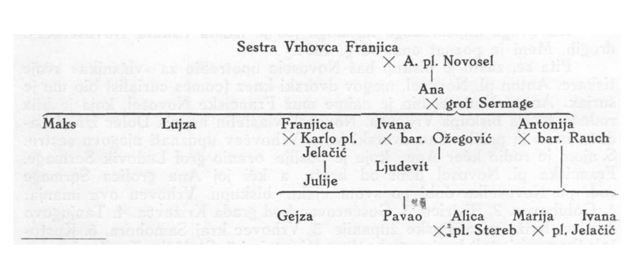 Novosel family tree, last members